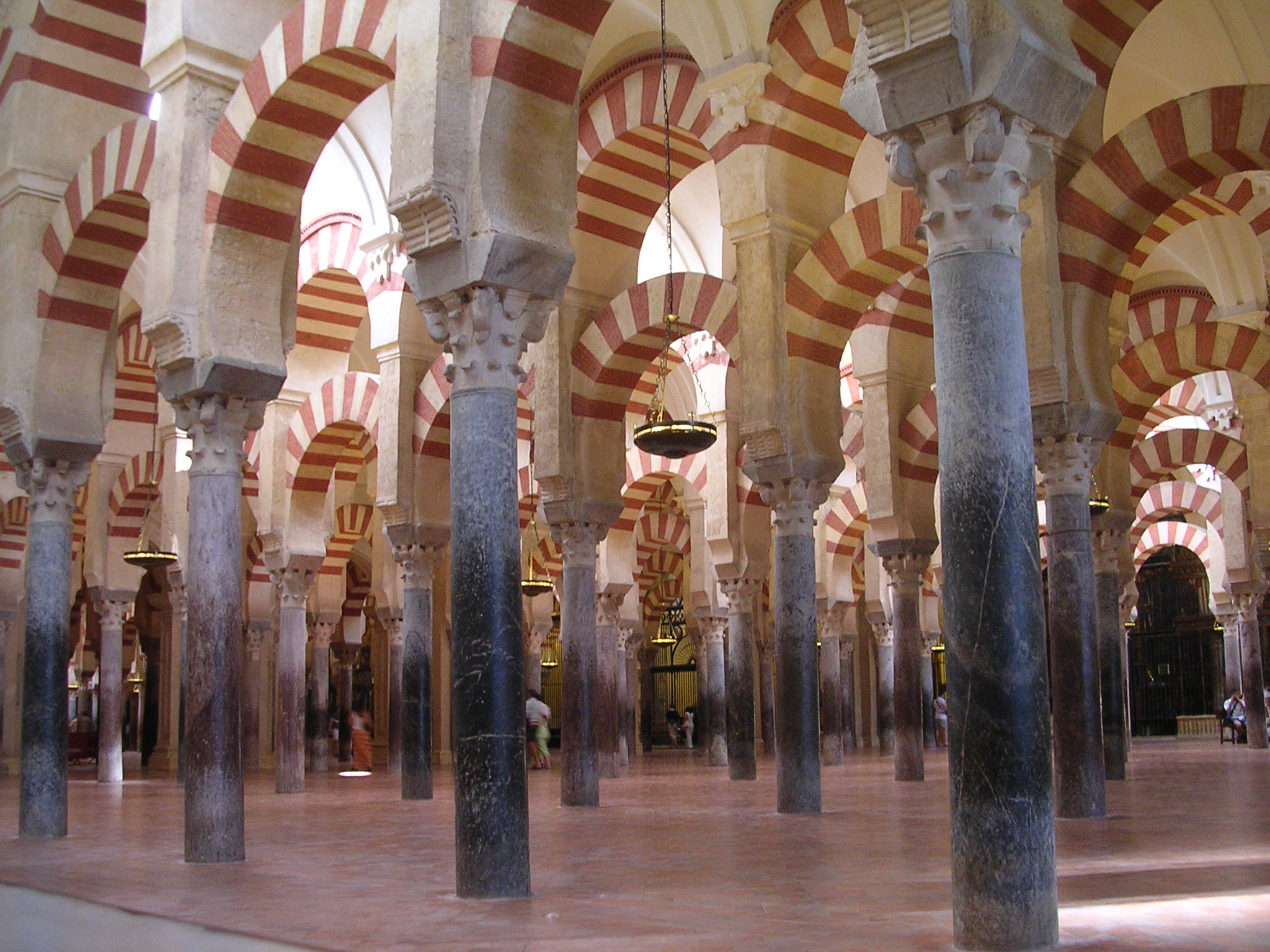 Mosque of Cordoba Hypostyle Hall - Córdoba, Spain